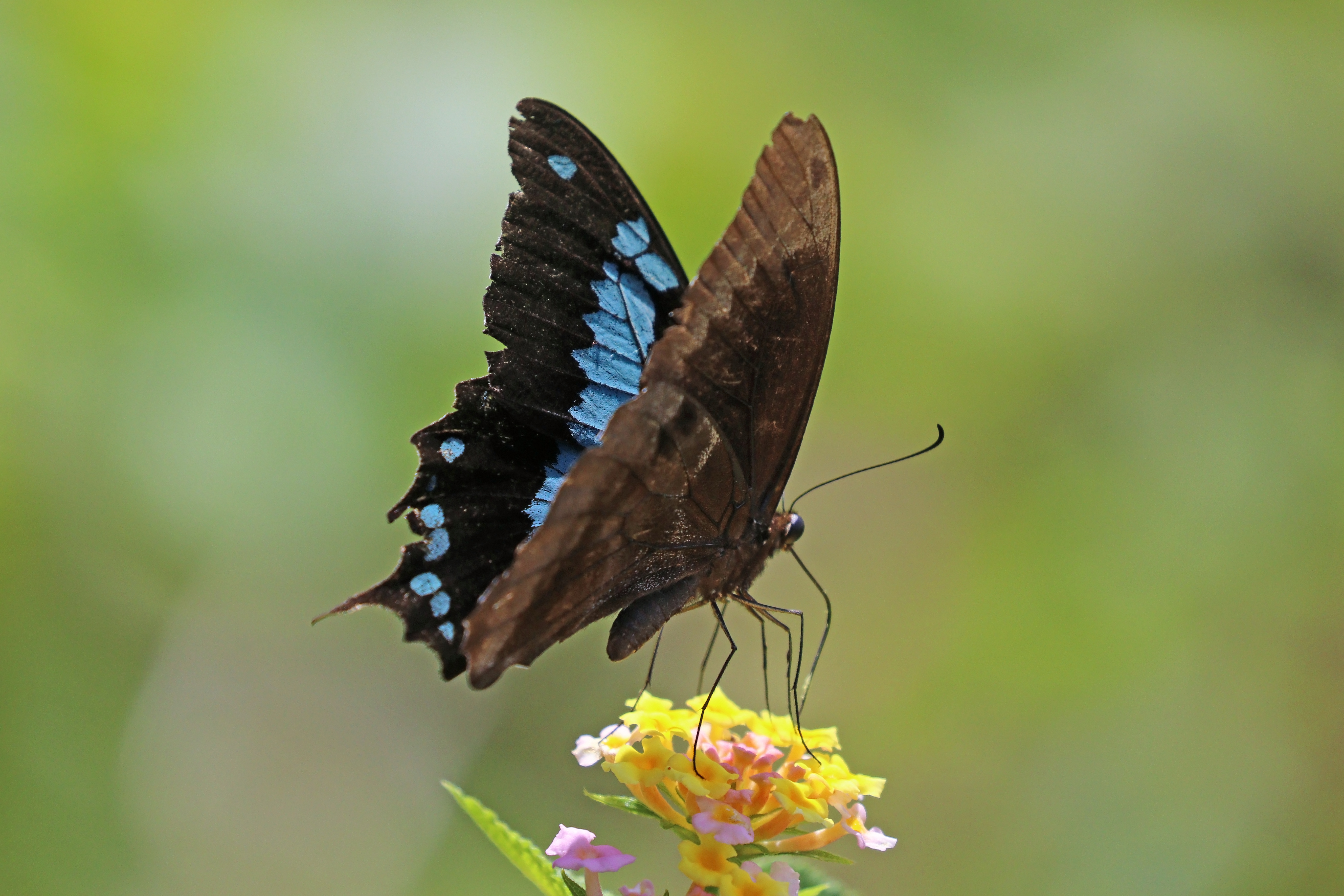 Banded blue swallowtail (Papilio oribazus), Analamazaotra Special Reserve, Madagascar